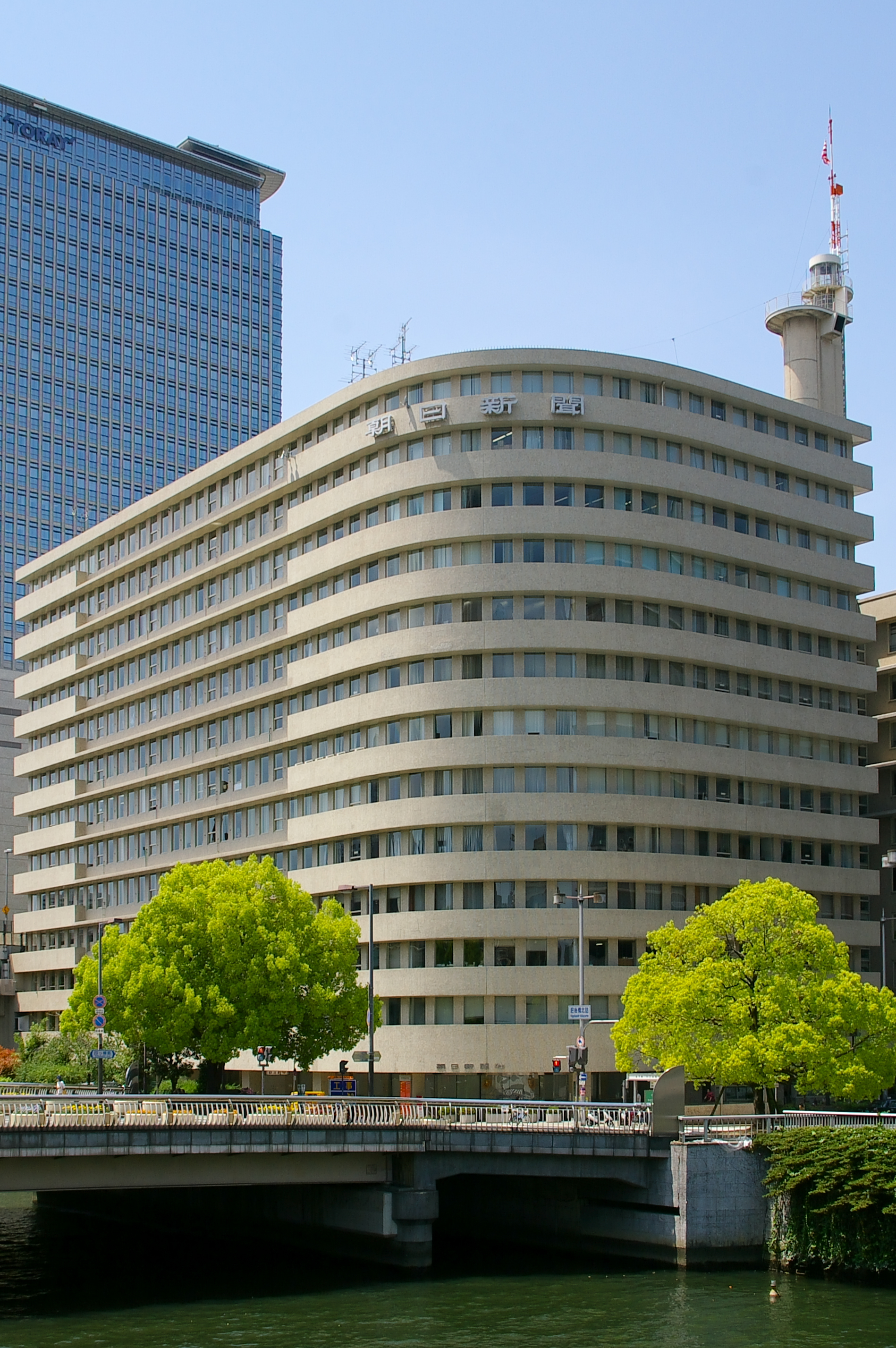 Photograph of Asahi Shimbun Building, Osaka Head Office of Asahi Shimbun Company, in Kita-ku, Osaka, Osaka Prefecture, Japan.